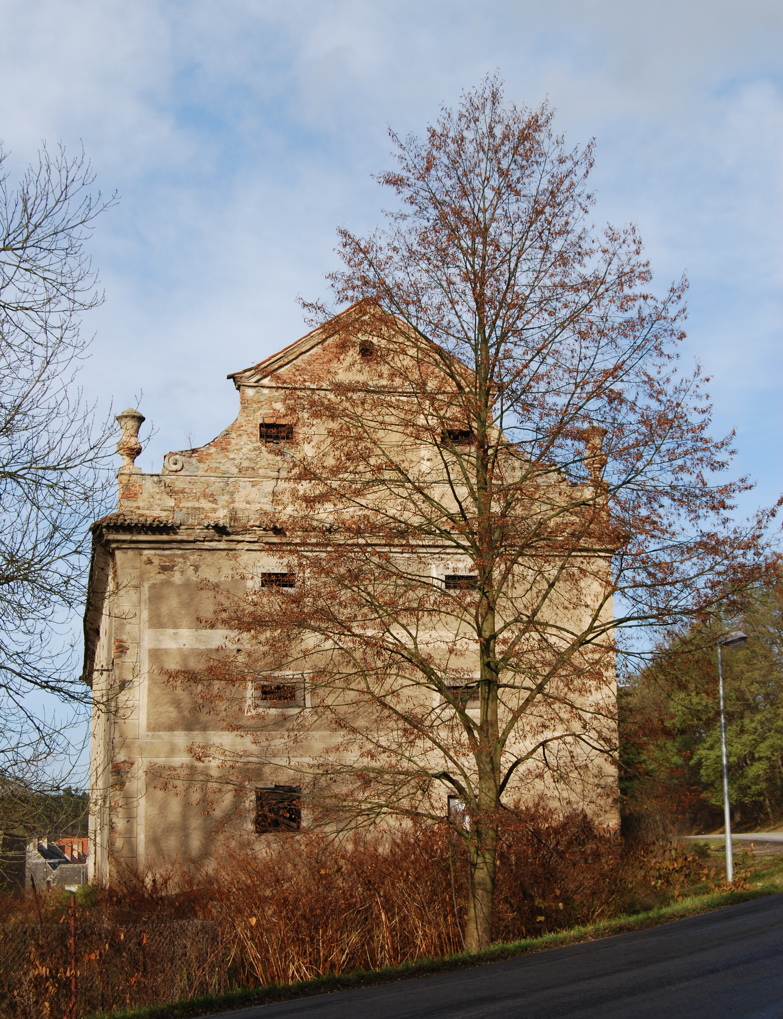 Koloděje nad Lužnicí village, part of Týn nad Vltavou town in České Budějovice District, Czech Republic.